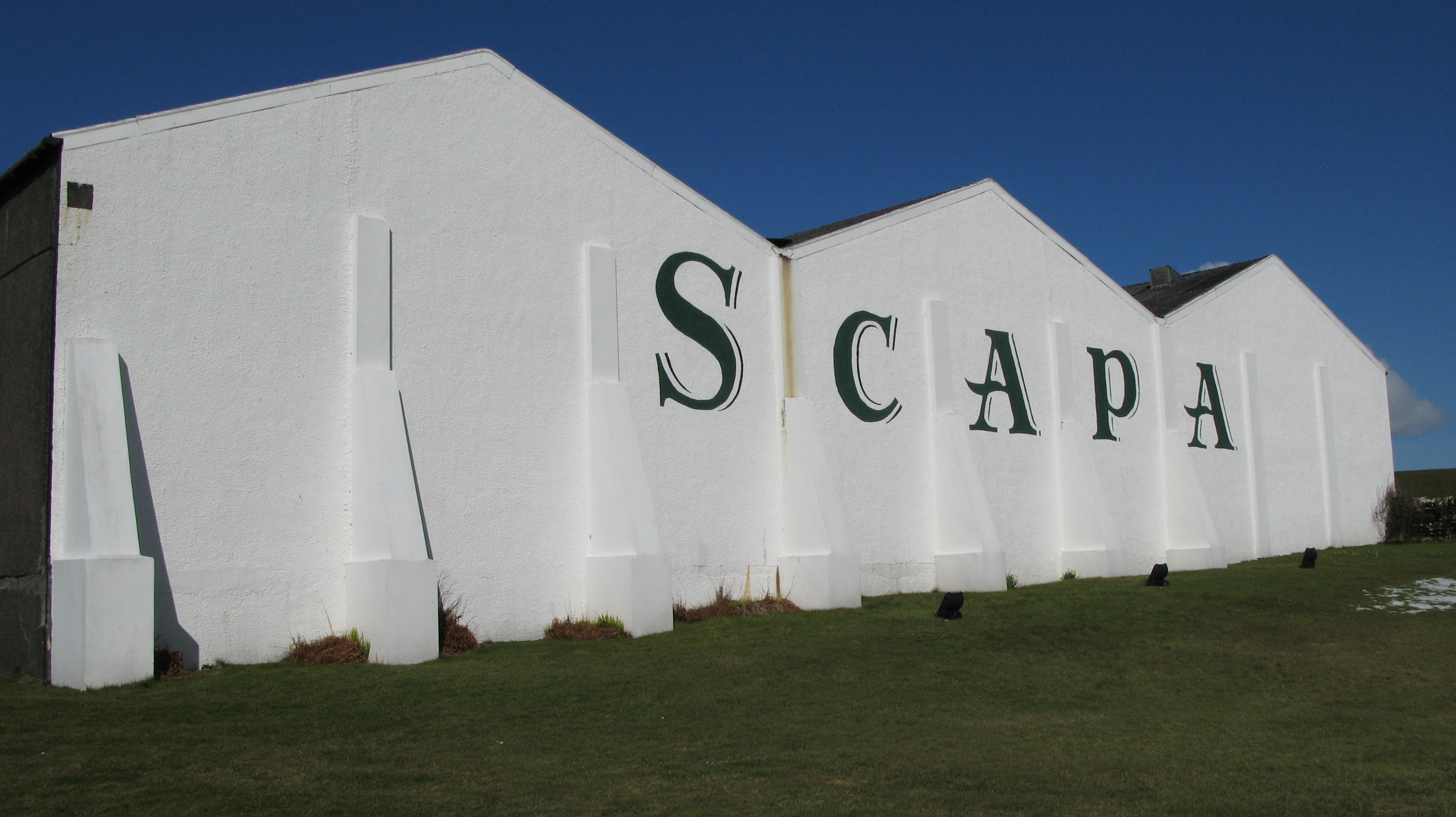 The Scapa whisky destillery.